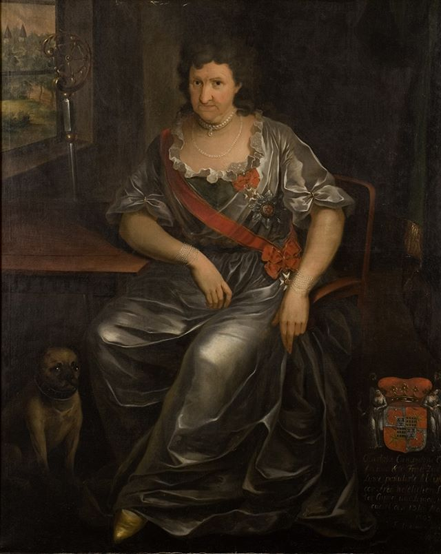 Portrait of Charlotte Clementine of Lippe (1730-1804)